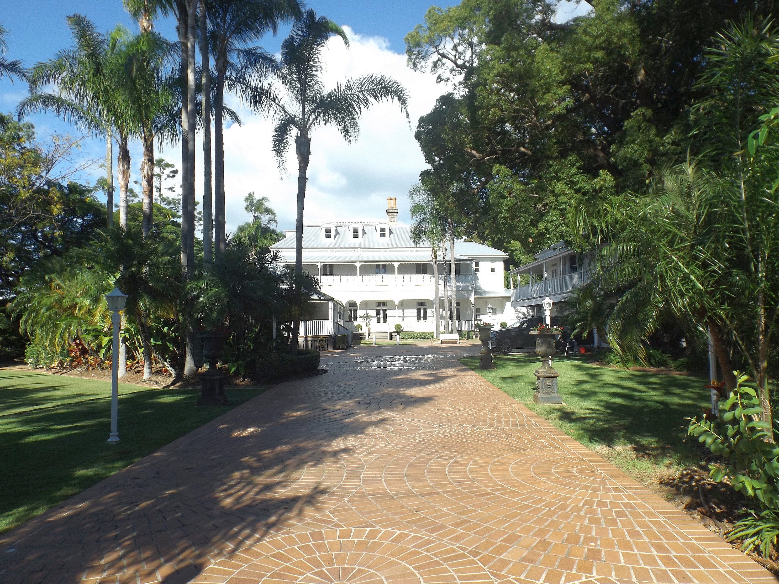 Photo of Whepstead from the front entrance at Wellington Point, Brisbane, City of Redland, Queensland, Australia.